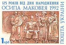 Stamp of Ukraine